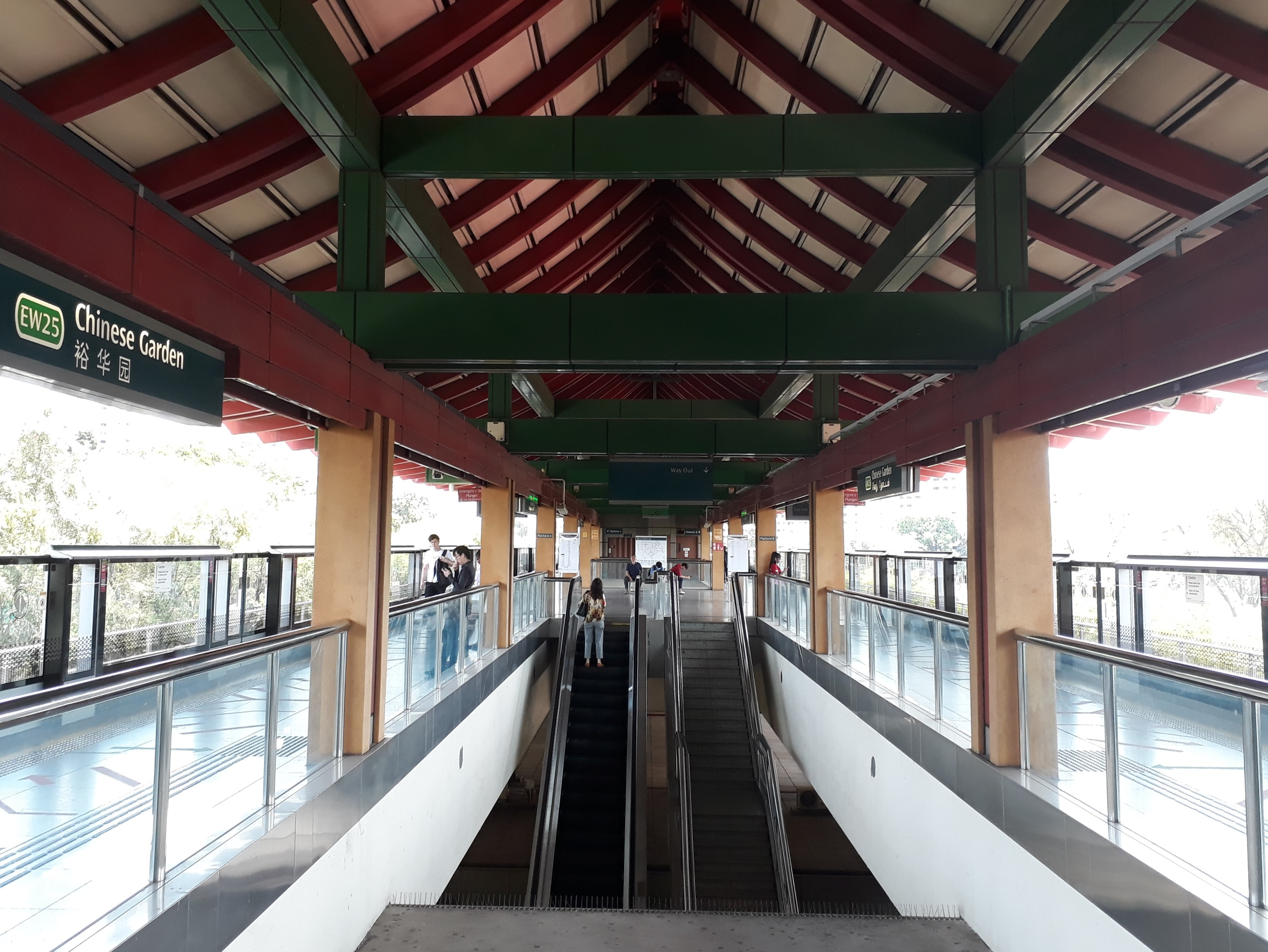 Chinese Garden station